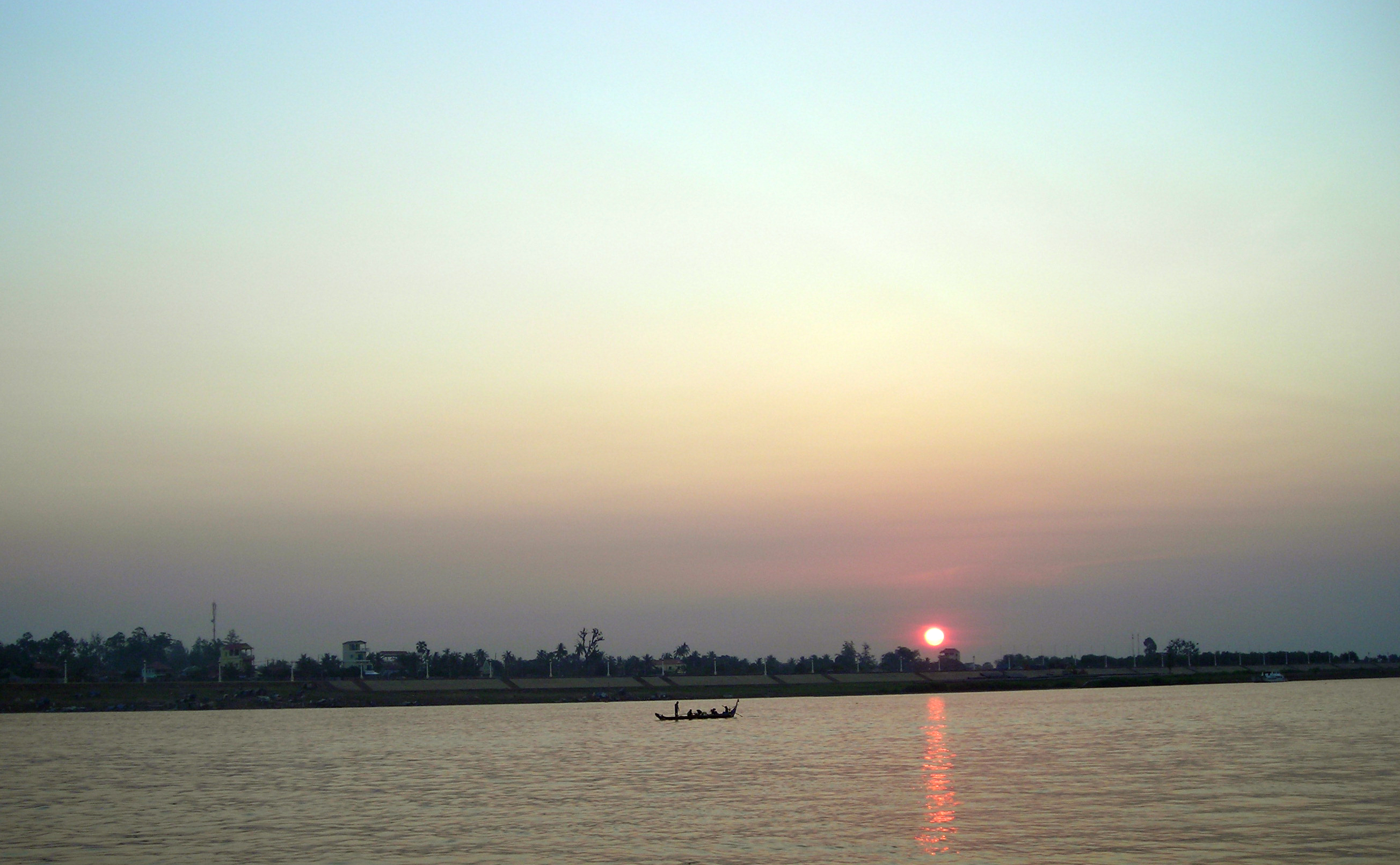 The sun rises over the Mekong River in Phnom Penh, Cambodia